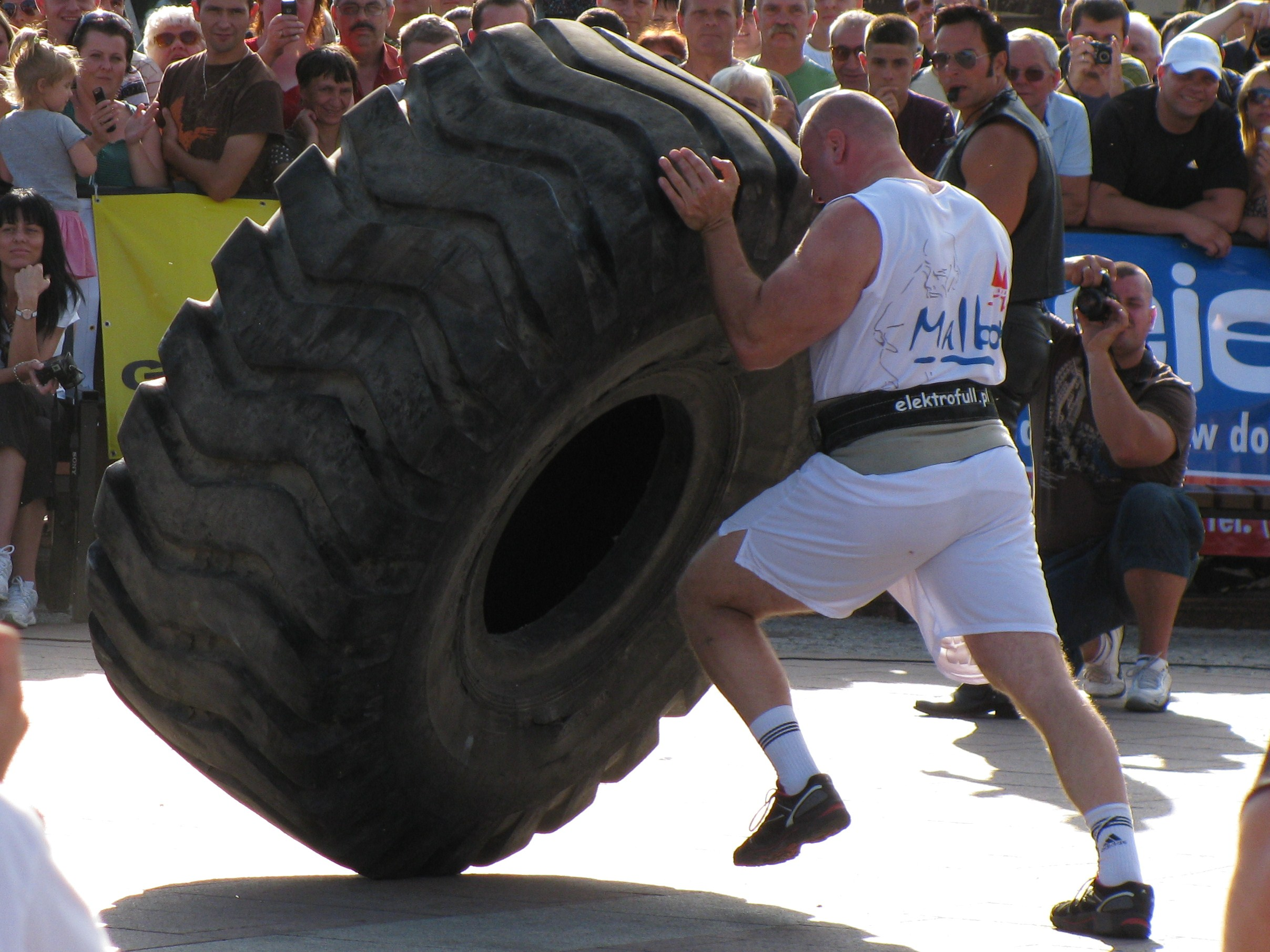 Strongmen event: the Tyre Flip.